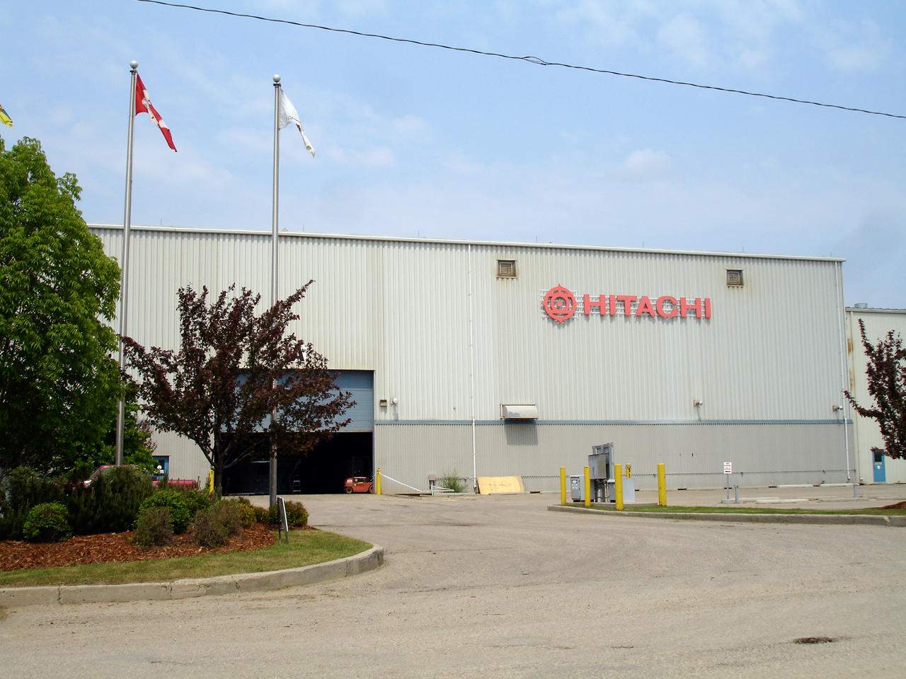 Hitachi Canadian Industries in Saskatoon, Saskatchewan, Canada.